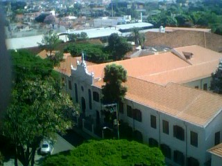 Taubaté Medical College entrance